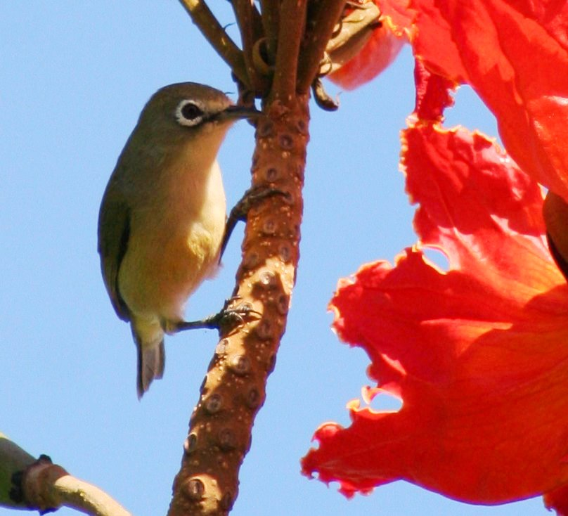 Bridled White-eye (Zosterops conspicillatus) Looking for bugs on this tree of brightly colored flowers.